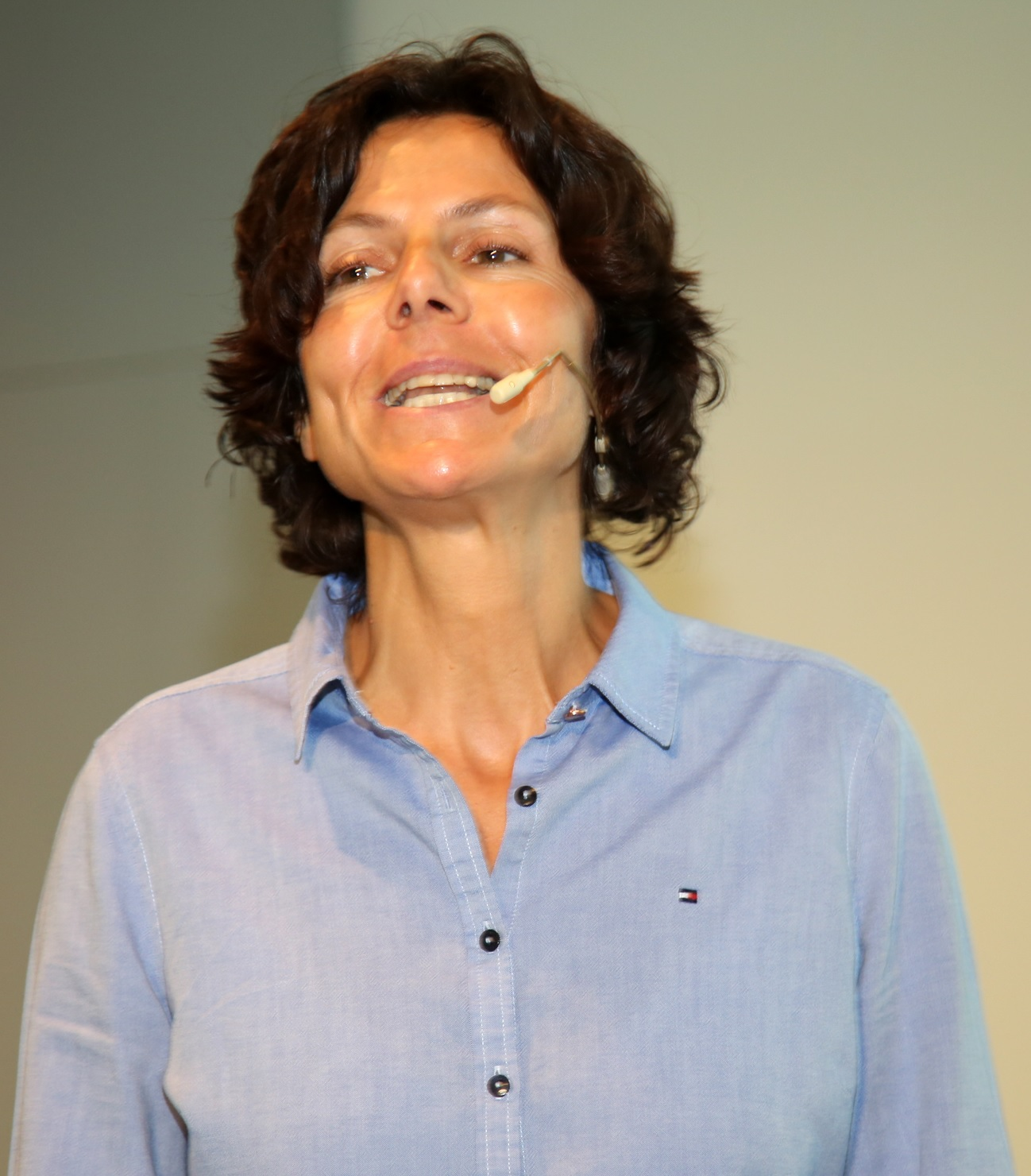 Austrian mountaineer Gerlinde Kaltenbrunner. In August 2011, she became the second woman to climb the fourteen eight-thousanders, and the first woman to do so without the use of supplementary oxygen or high altitude porters.